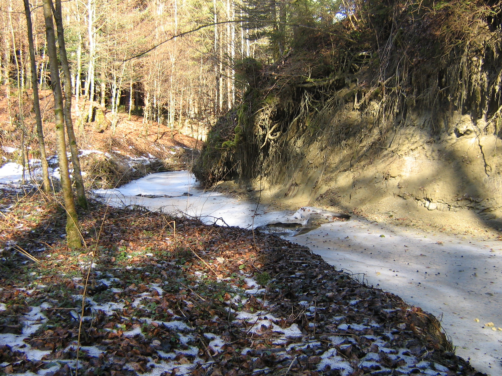 Frozen stream of the Sauteru in the forest Charbonnière between Fey and Villars-le-Terroir.